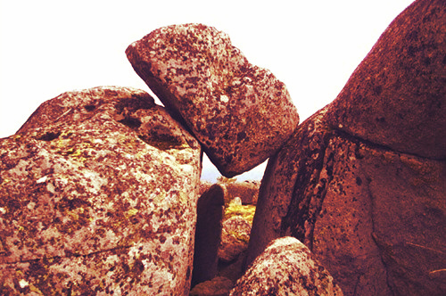 Arch megalithic Carev vruh Rila